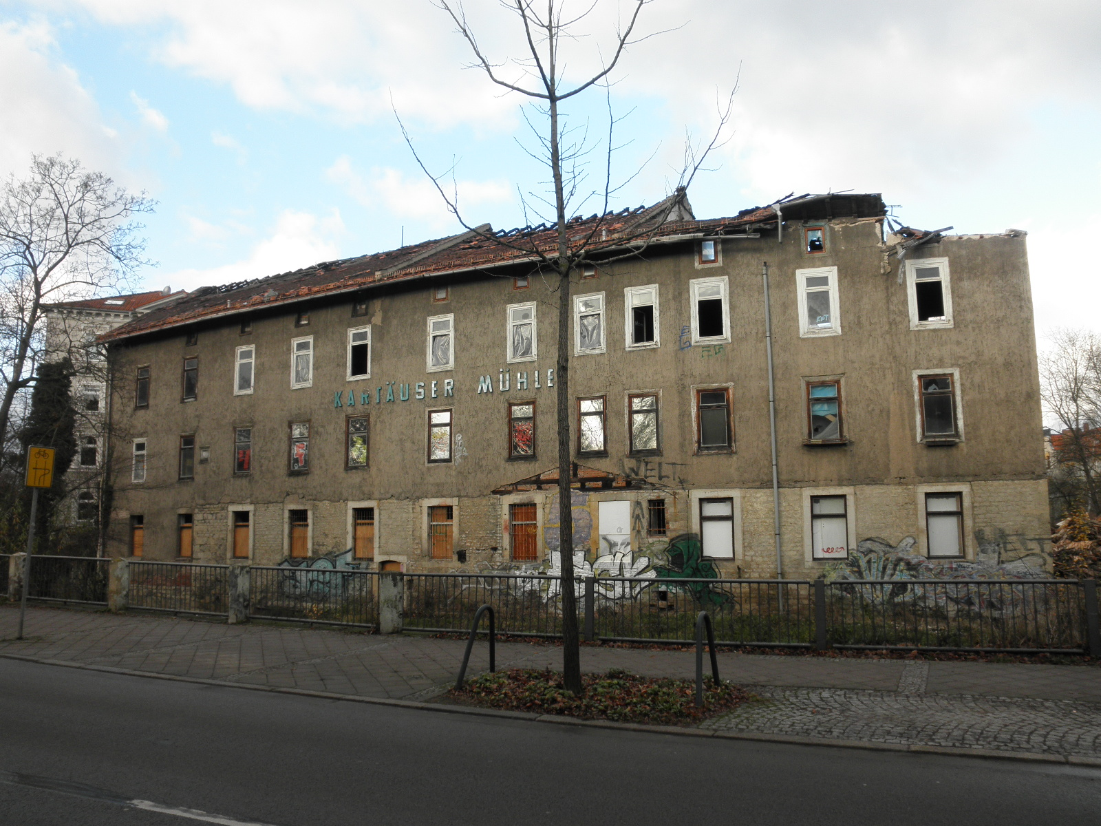 Kartäuser Mill in Erfurt